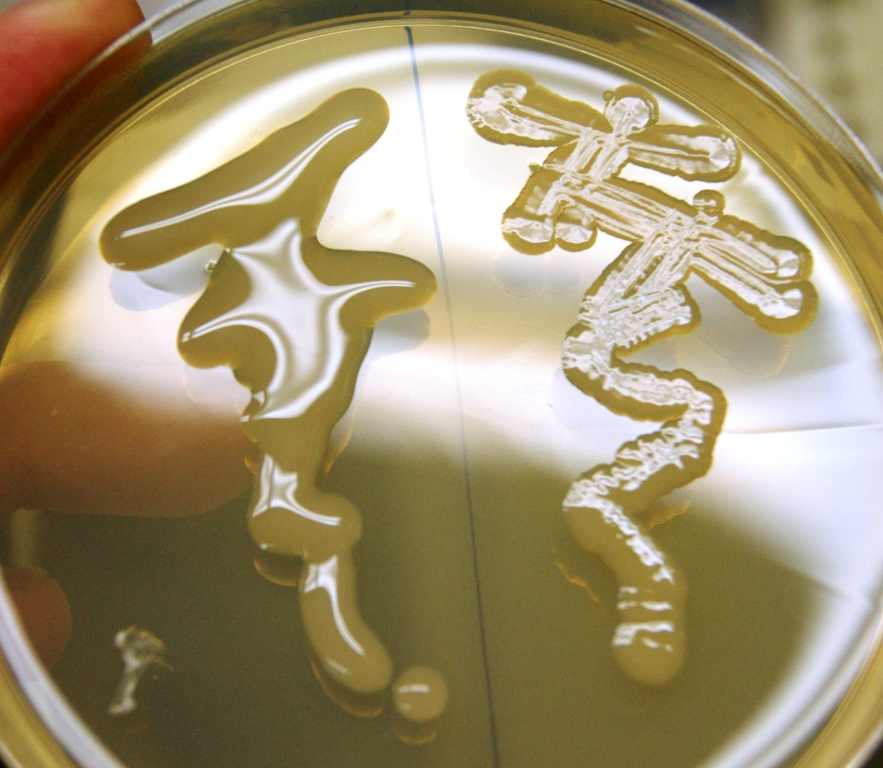 Escherichia coli MG1655 dleta lon (left), escherichia coli MG1655 (right)